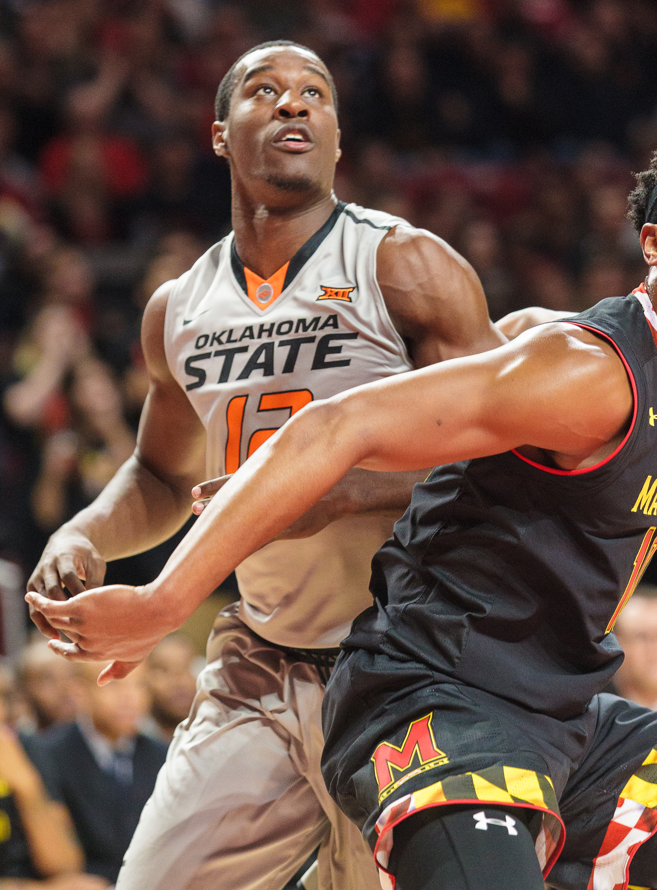 Cameron McGriff of Oklahoma St.